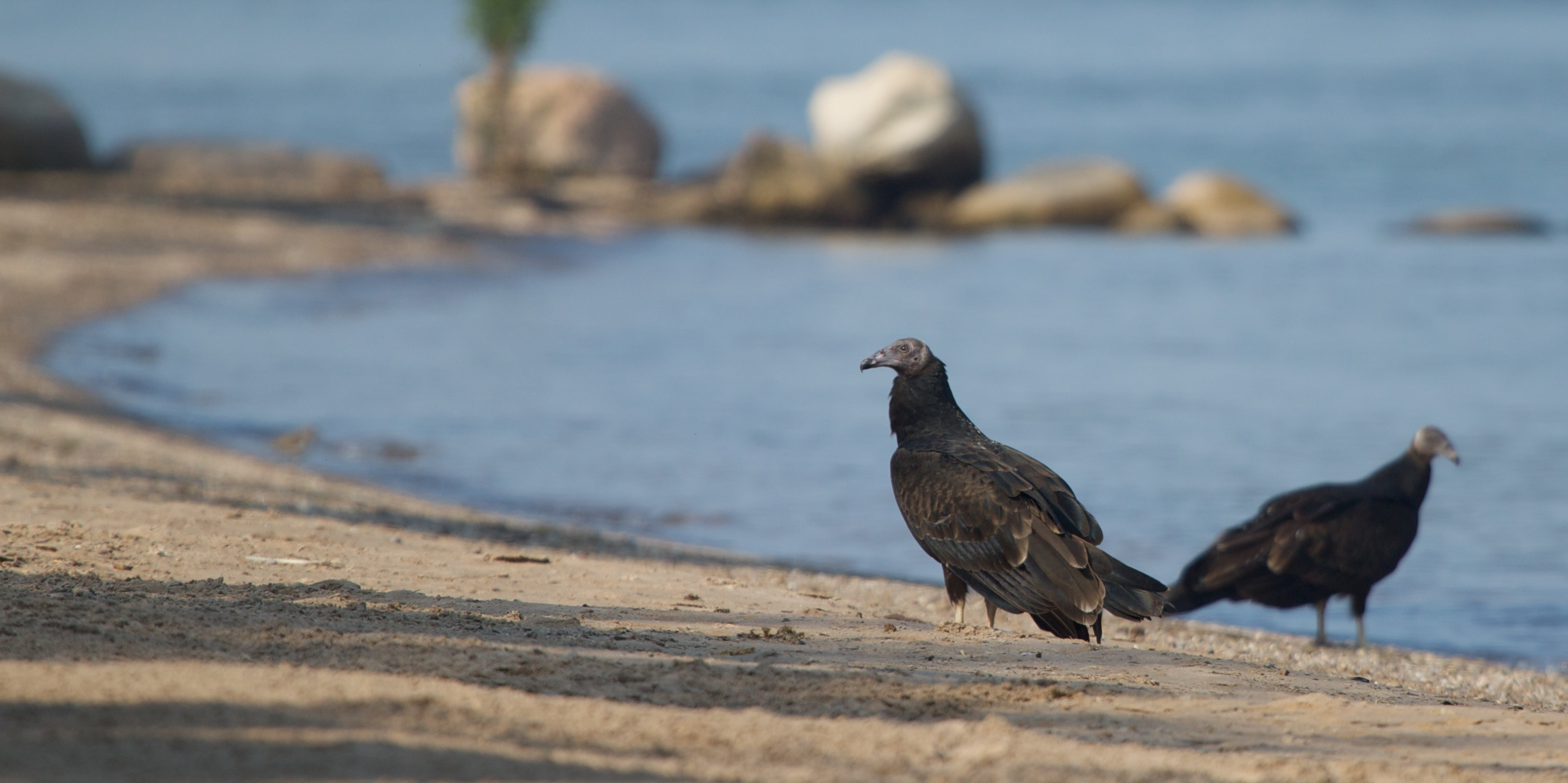 Immature Turkey Vultures attracted to the shore of Lake Huron, Canada by beached dead fish.